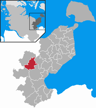 This map shows the area of the Stadt (town) Eutin in the Kreis (district) Ostholstein, Schleswig-Holstein, Germany.